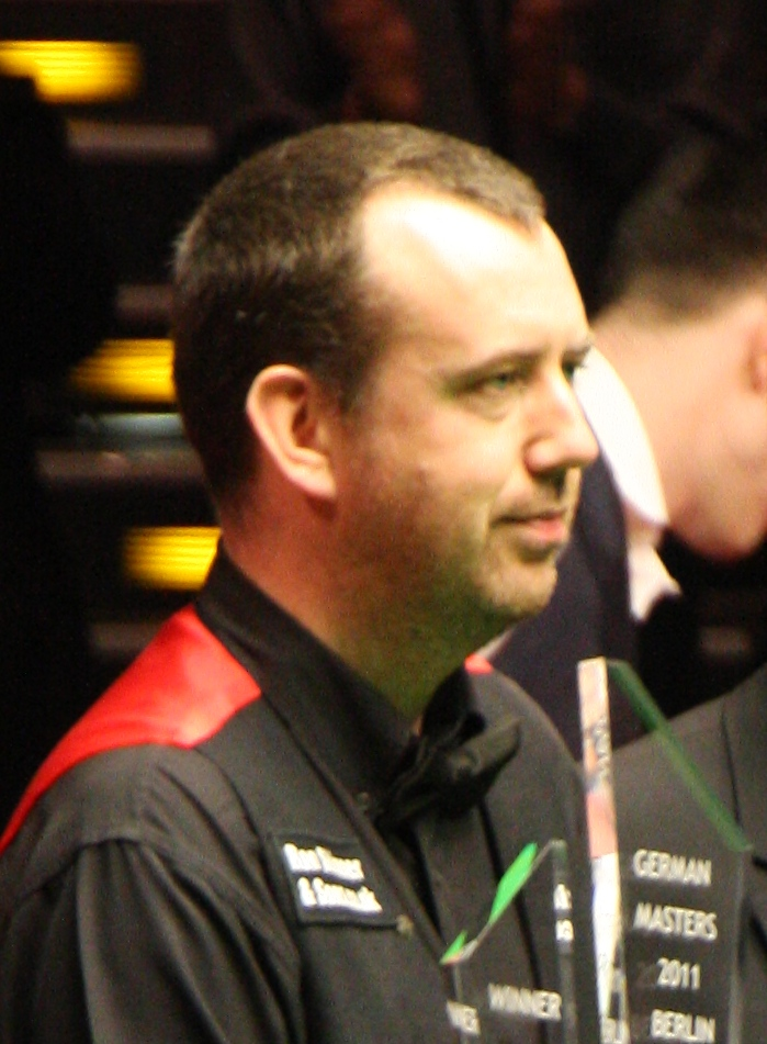 Snooker player Mark J. Williams at the en:2011 German Masters